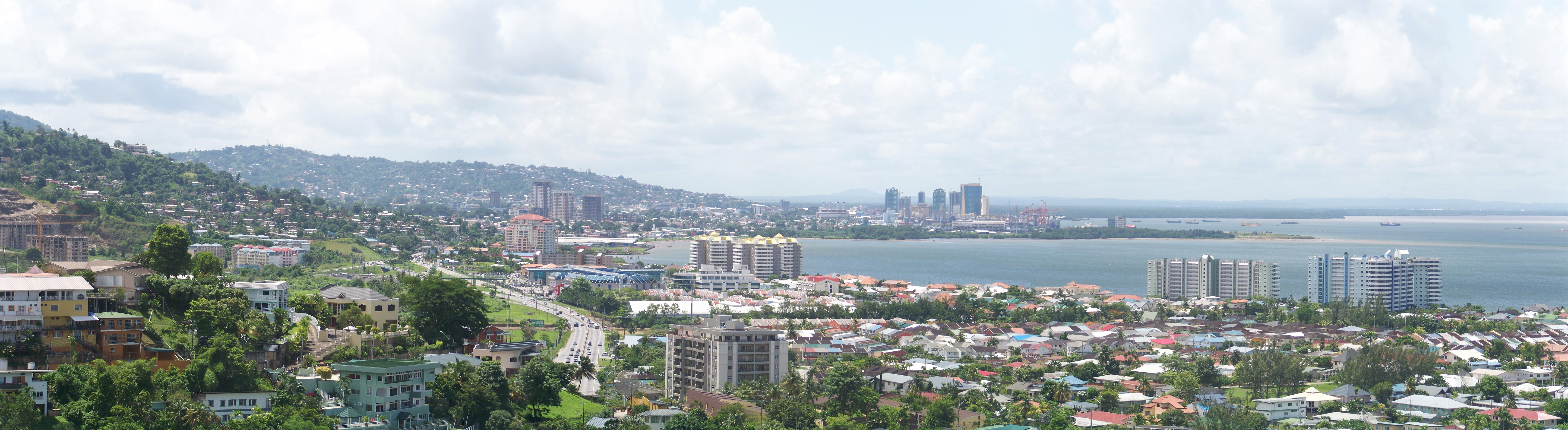 Photo of west Port of Spain and downtown (original description: photo of west Port of Spain and downtown)